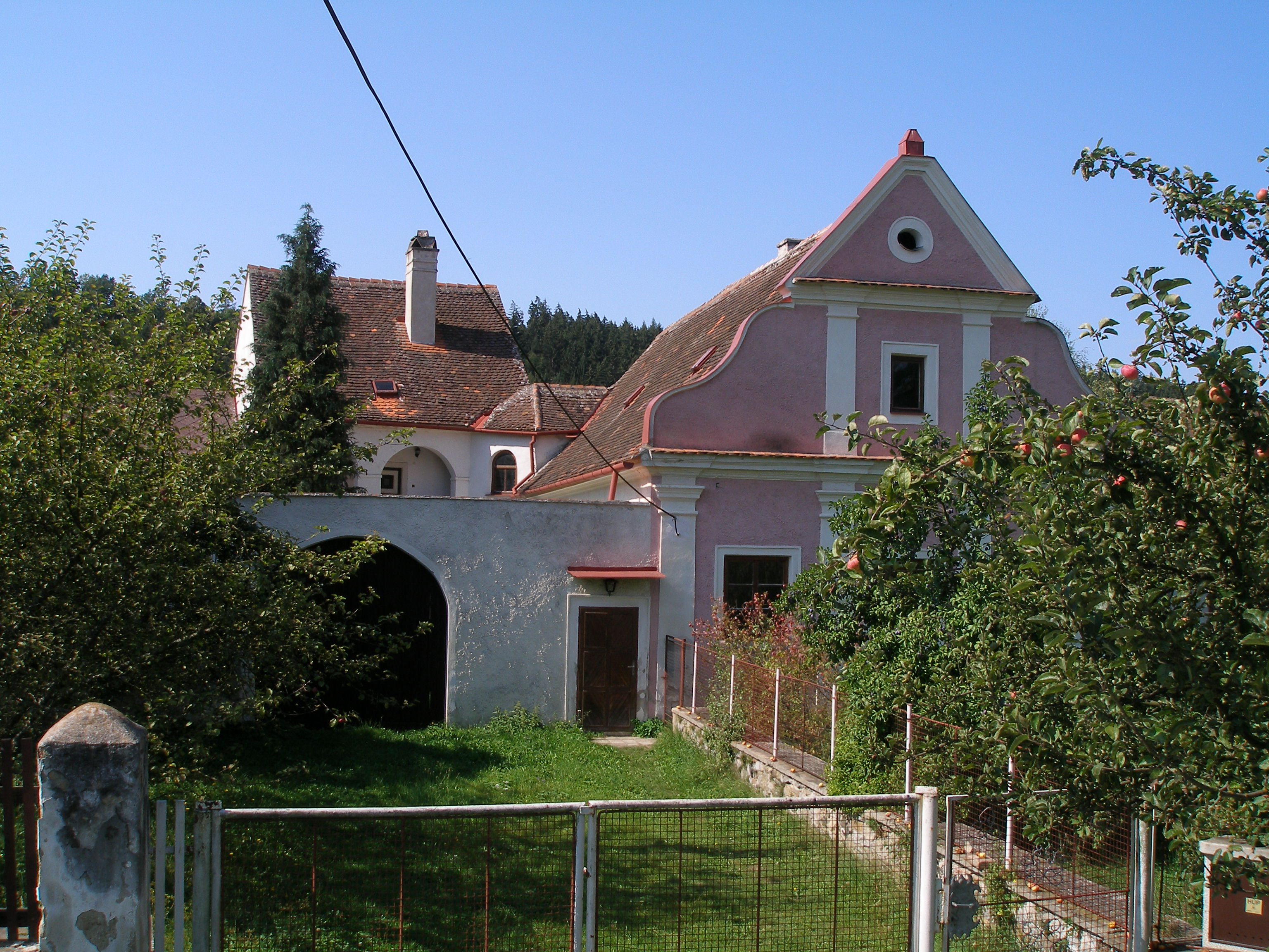 Lubnice (Znojmo district), the parsonage